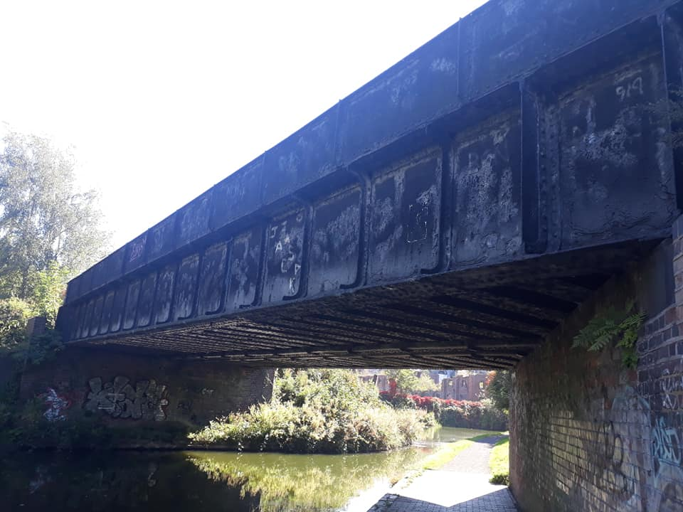 Former Oldbury Railway bridge over Titford Canal.